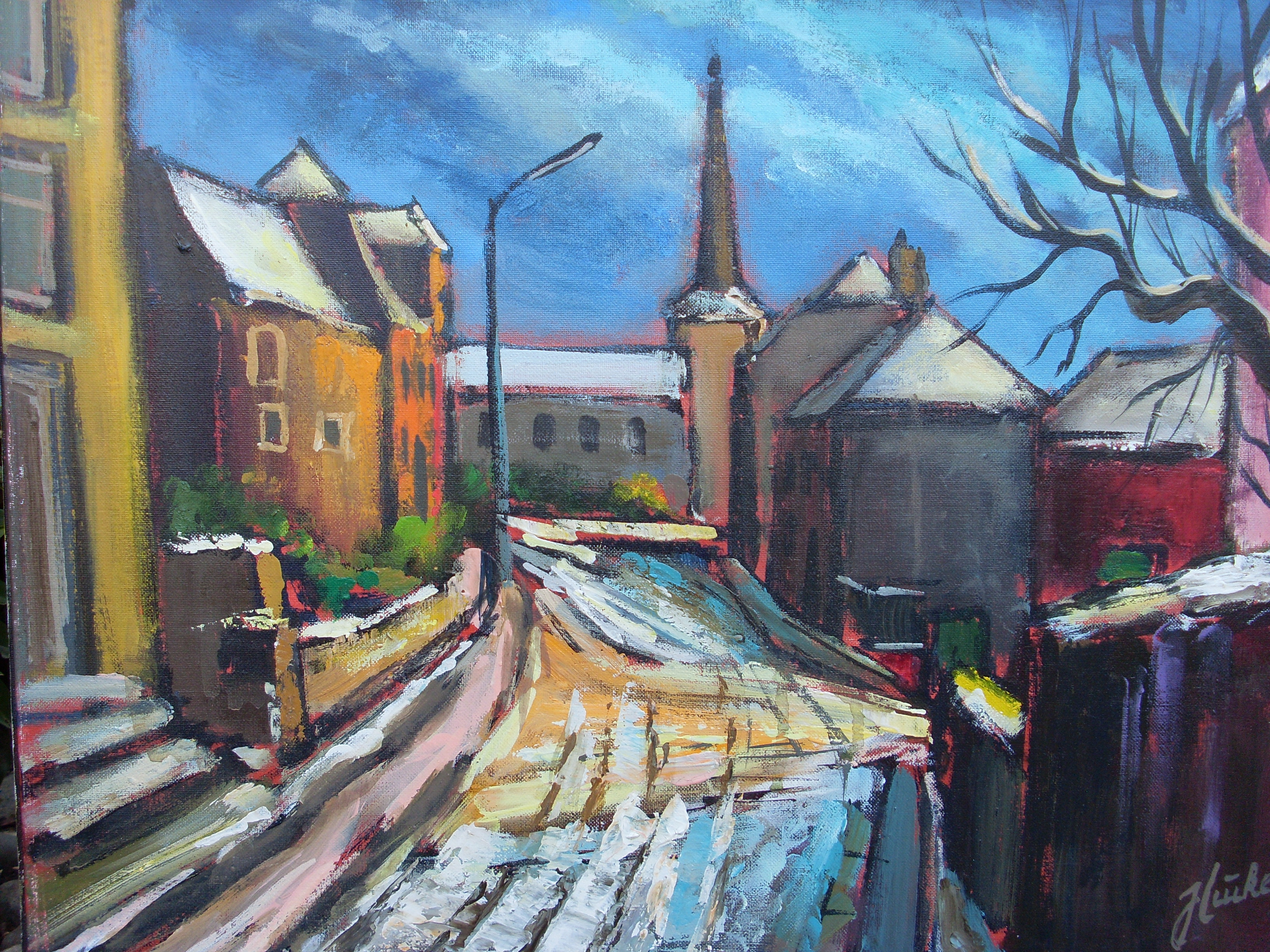 This painting represents a very charming village called Bettborn (PRÉITZERDALL) situated in the middle of the Grand-Duchy of Luxembourg. It is drawn on stretched canvas (dimensions: 0,60*0,50m) using acrylic colours and knowing that I like to create landscapes in the snow